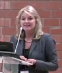 Prof Dana Arnold 2016